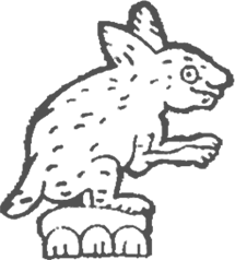 Tuxtla's glyph, capital city of Chiapas, Mexico.